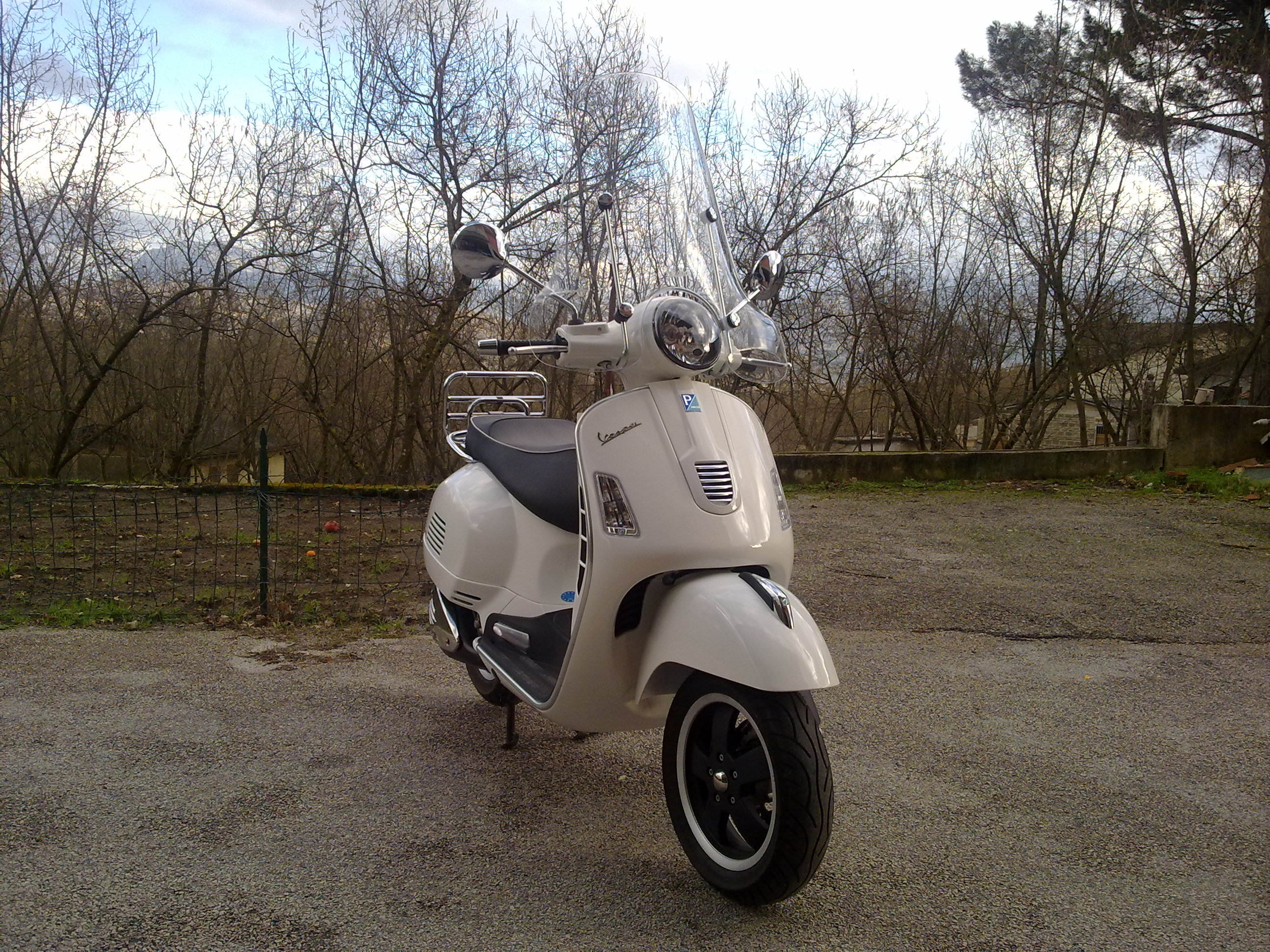 Vespa GTS 300 Super in Montebianco color, with rear rack, windscreen and floor-mat